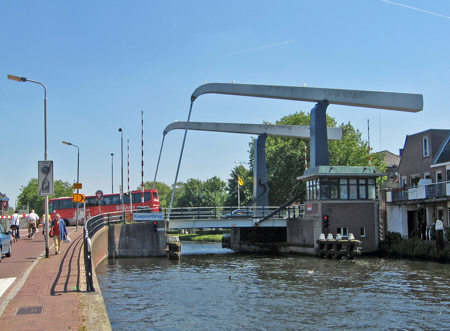 Koepoorbrug, a bridge in Delft, 11 juni 2006